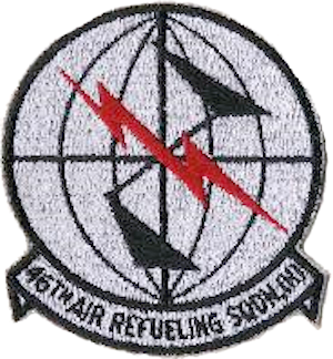 Emblem of the 46th Air Refueling Squadron (SAC)